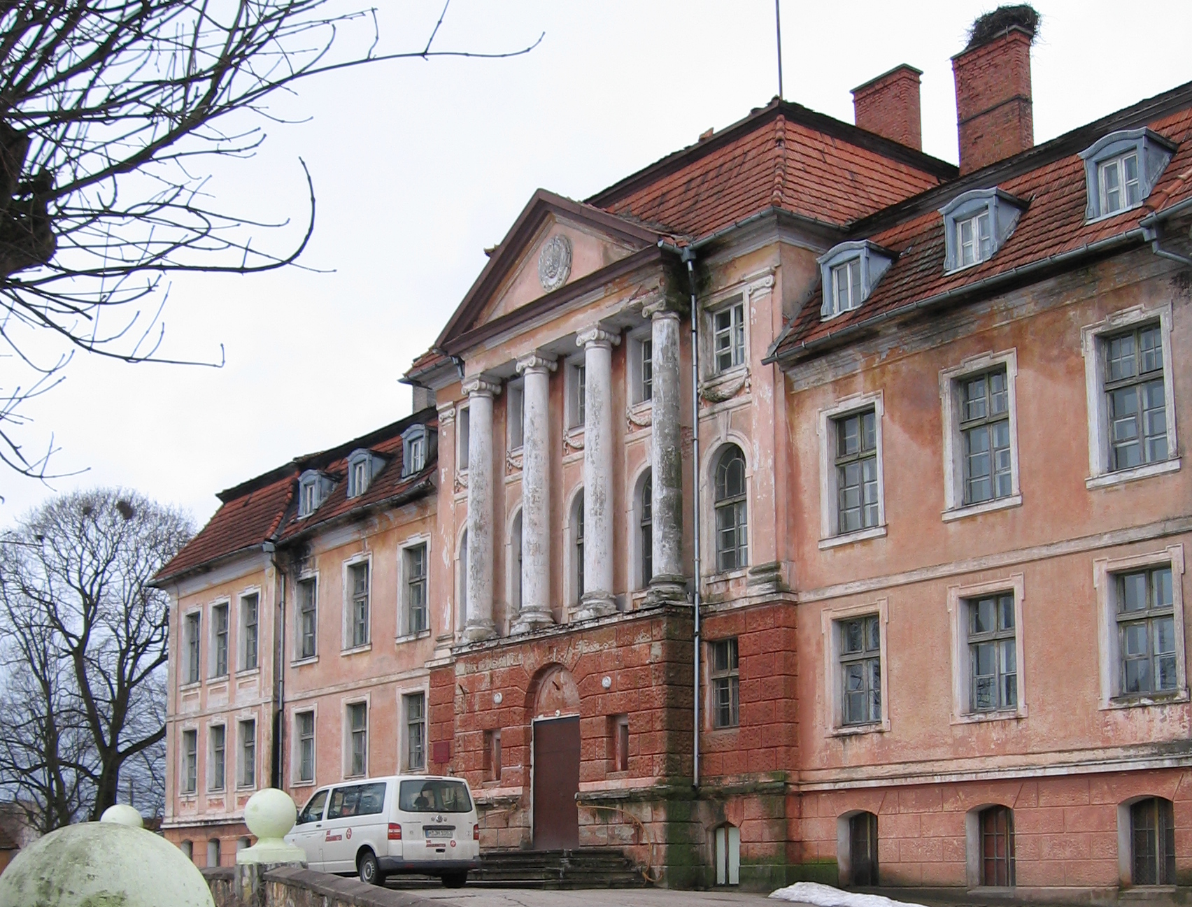 Zheleznodorozhny